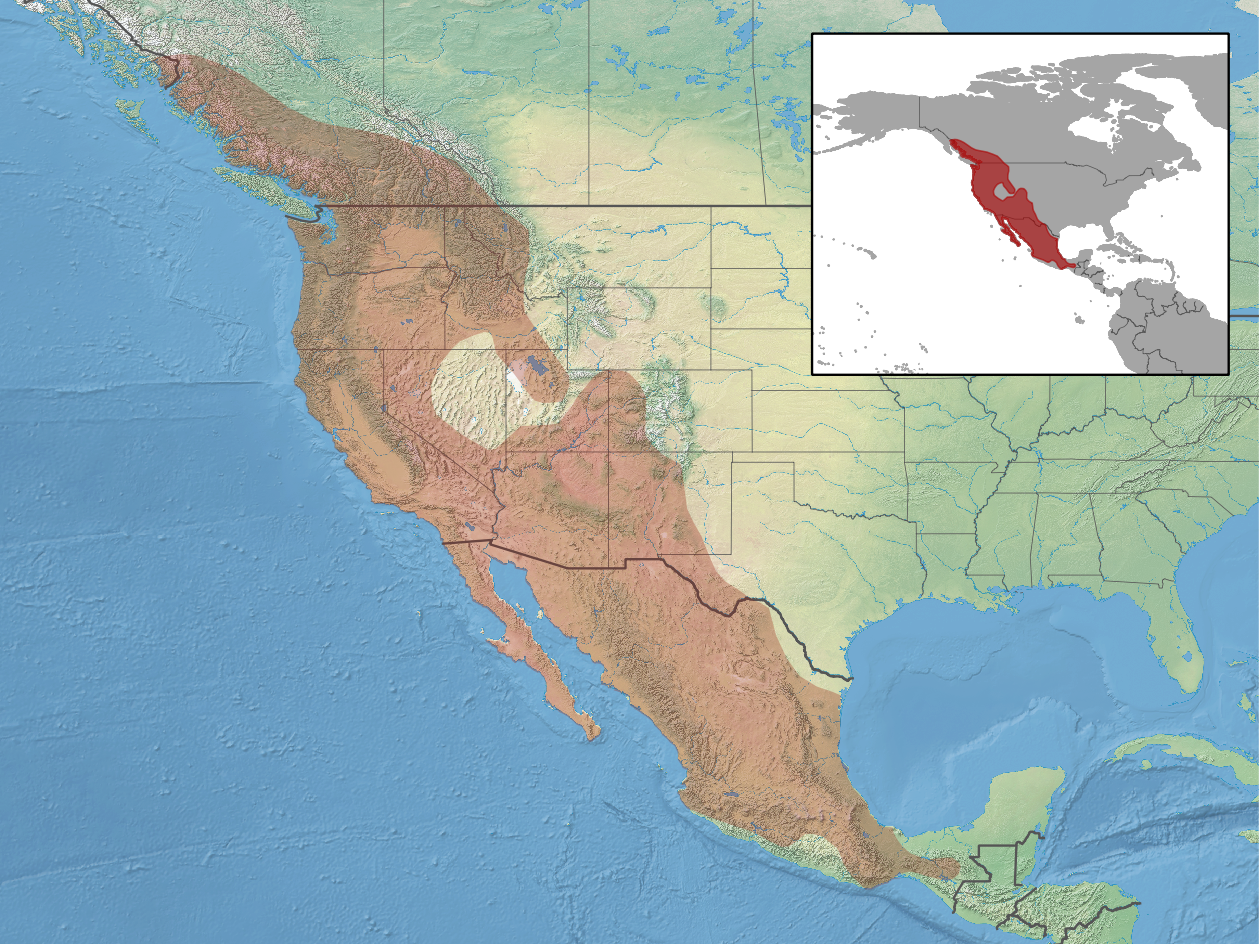 geographic distribution of Myotis californicus